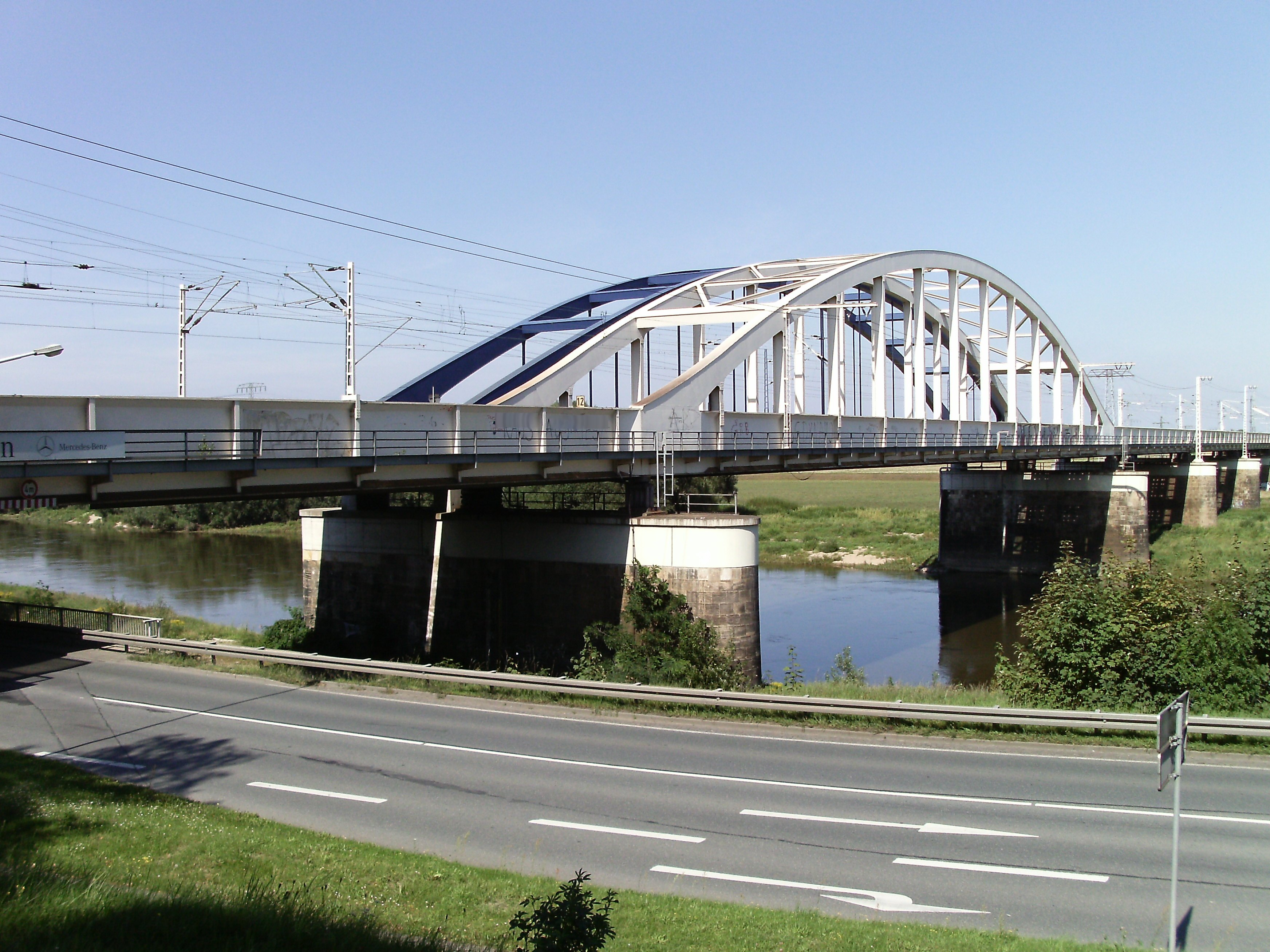 Railway bridge over the Elbe at Riesa (Meissen district, Saxony)